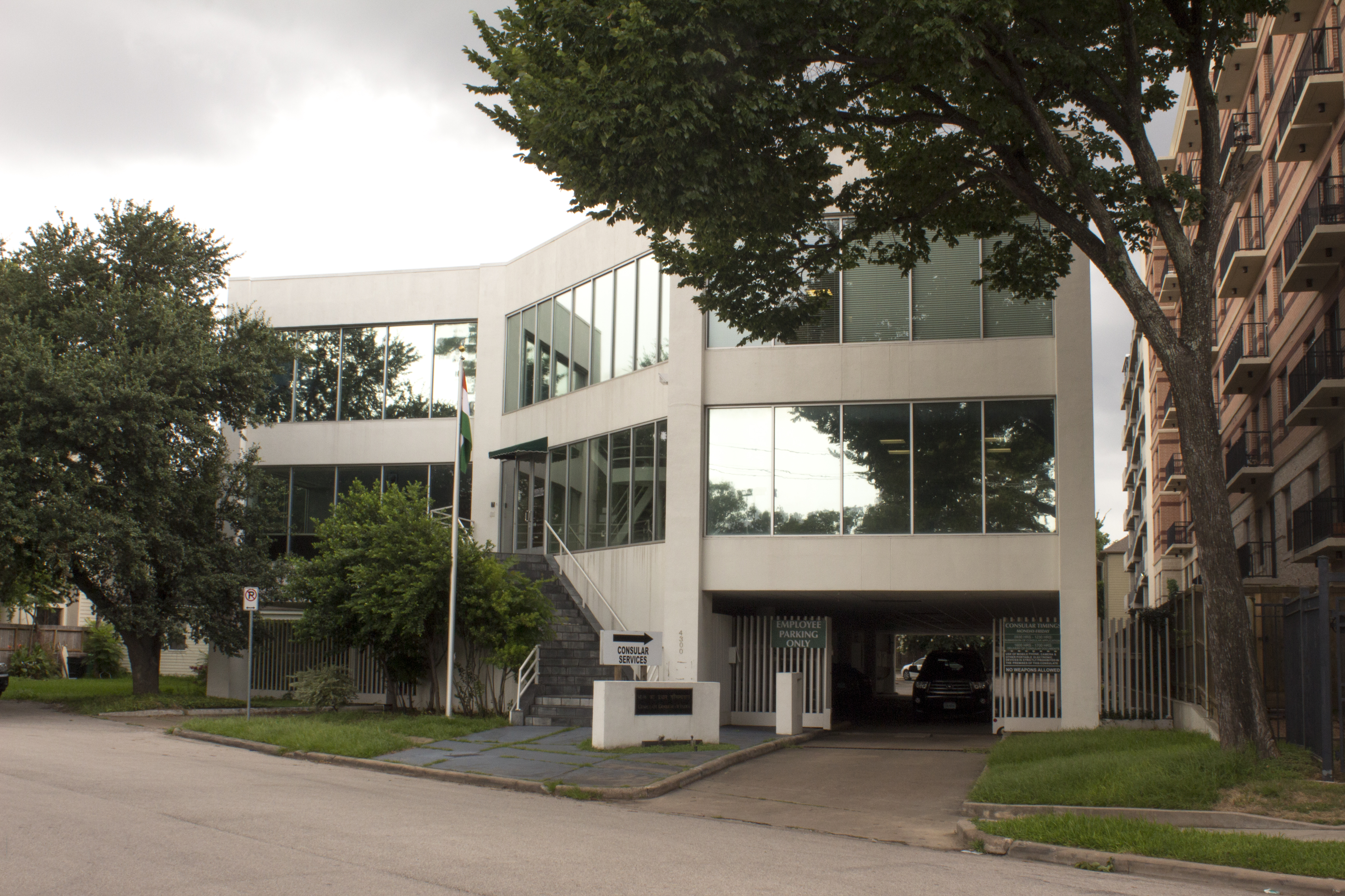 The Consulate General of India in Houston, TX. Located at 4300 Scotland Street, Houston, TX.